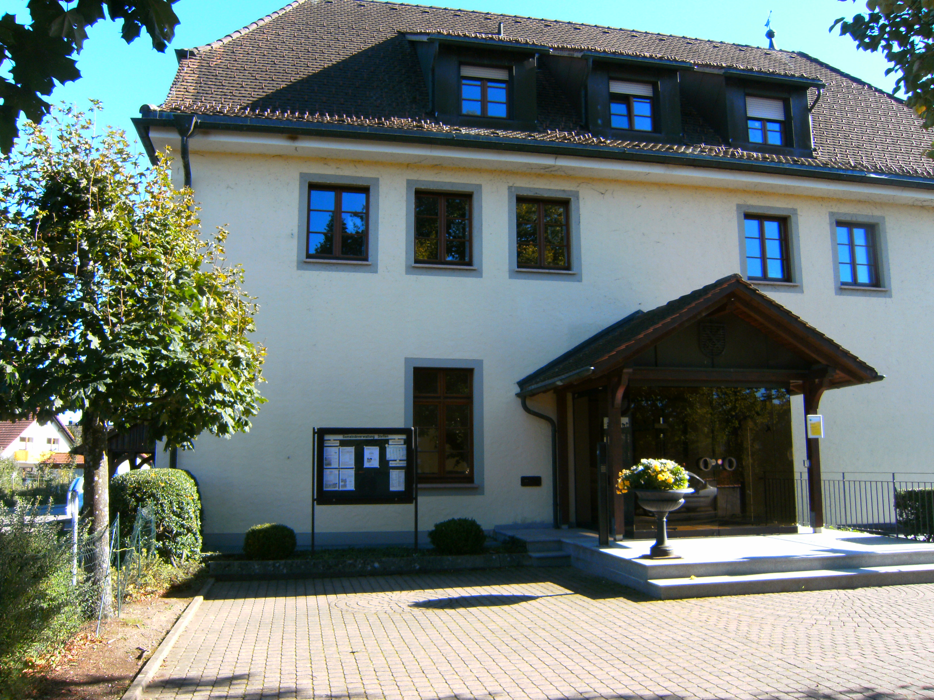 Stetten (Bodenseekreis), Germany: Townhall.